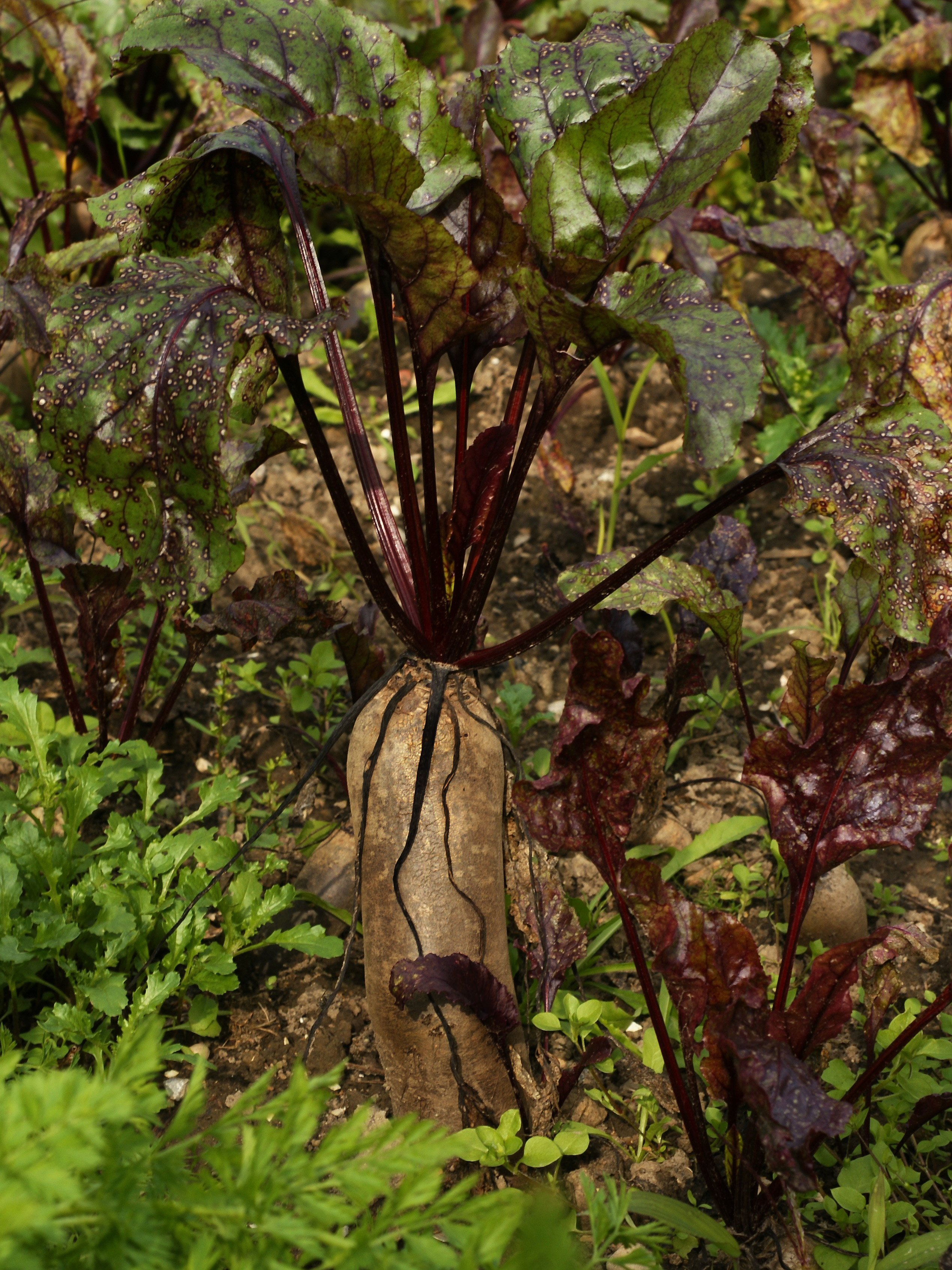 Beta vulgaris, commonly known as beetroot or beet which is the common American English term for the vegetable, is a flowering plant species in the family Chenopodiaceae.